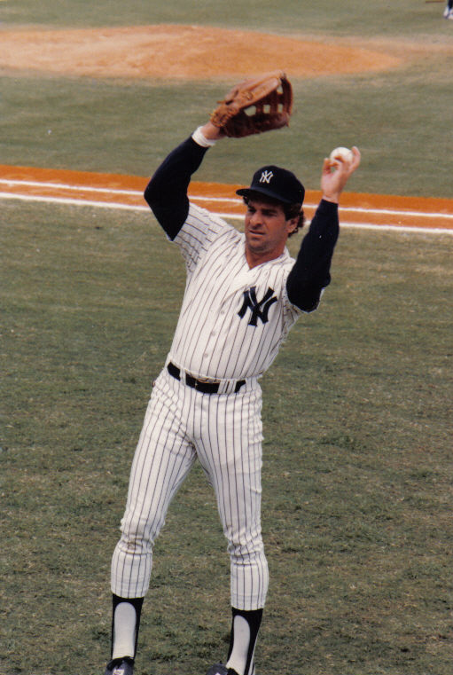 Steve Kemp 04:31, 8 May 2008 . . Phil5329 . . 520×772 (168 KB)